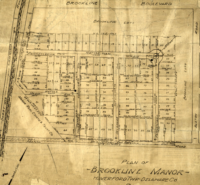 Brookline PA